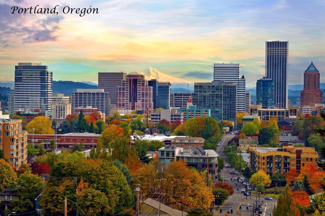 Portland City